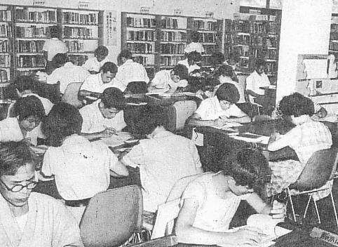 Ryukyuan-American Cultural Center Library